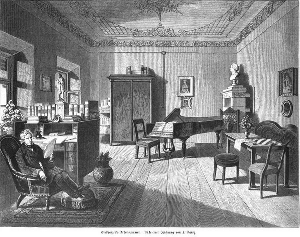 Grillparzer's study